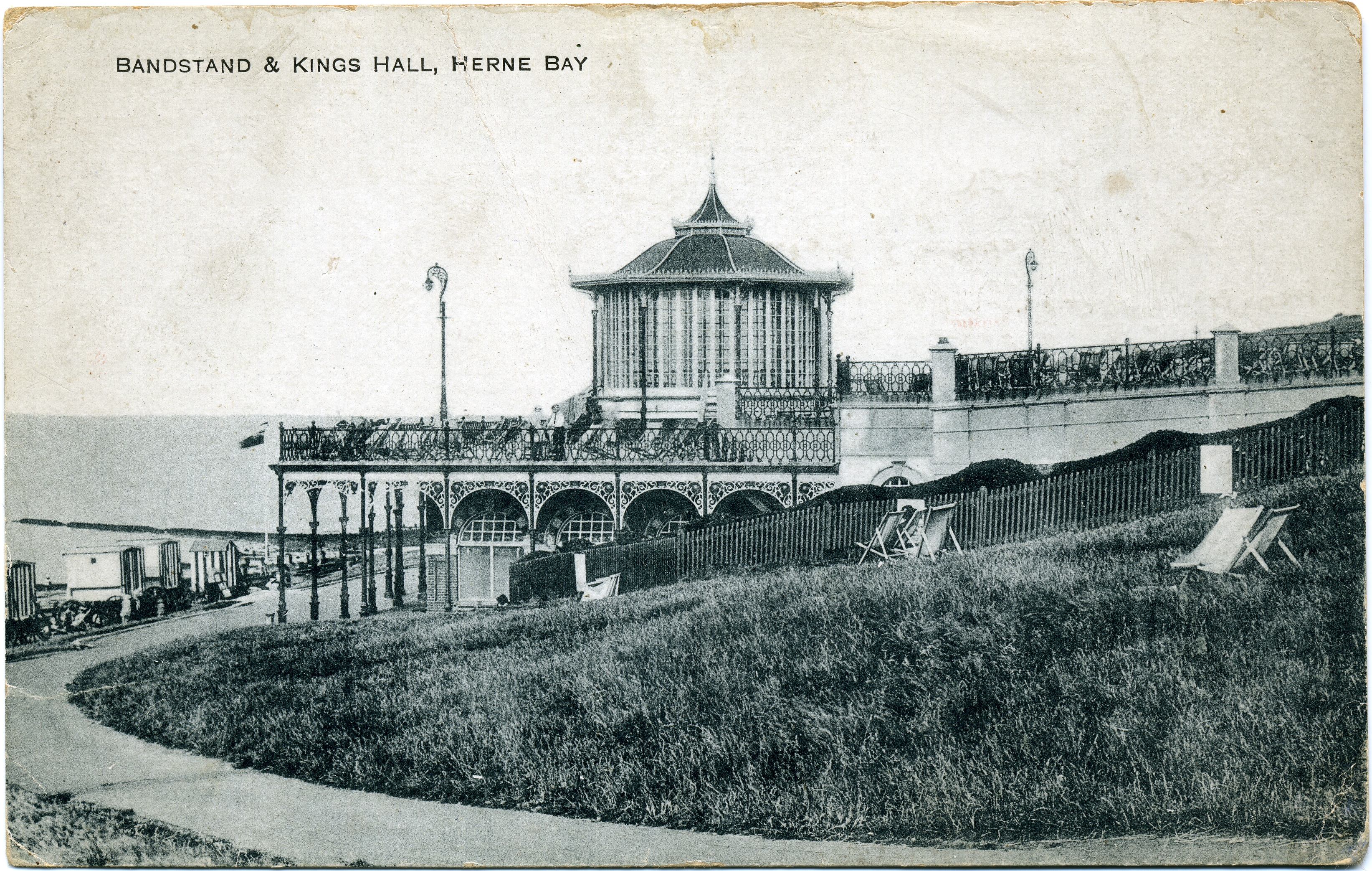 Postcard photograph of the King's Hall, Herne Bay, Kent, England. The card is unused and undated. The King's hall was built in 1904 and named the Pavilion or Bandstand until 1913 when its name was changed to King's Hall and it was rebuilt and extended underground. The quality of this card, the title of King's Hall and the presence of the bathing machines in the picture suggest a date between 1913 and 1914.